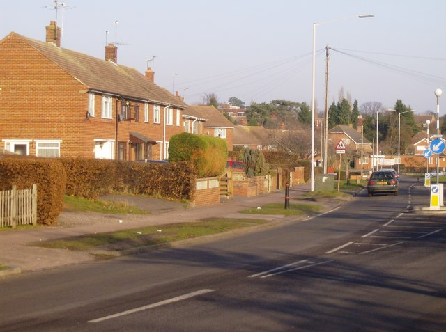 Southcote Lane Houses on the main spine road through this 1950s and 1960s housing estate.